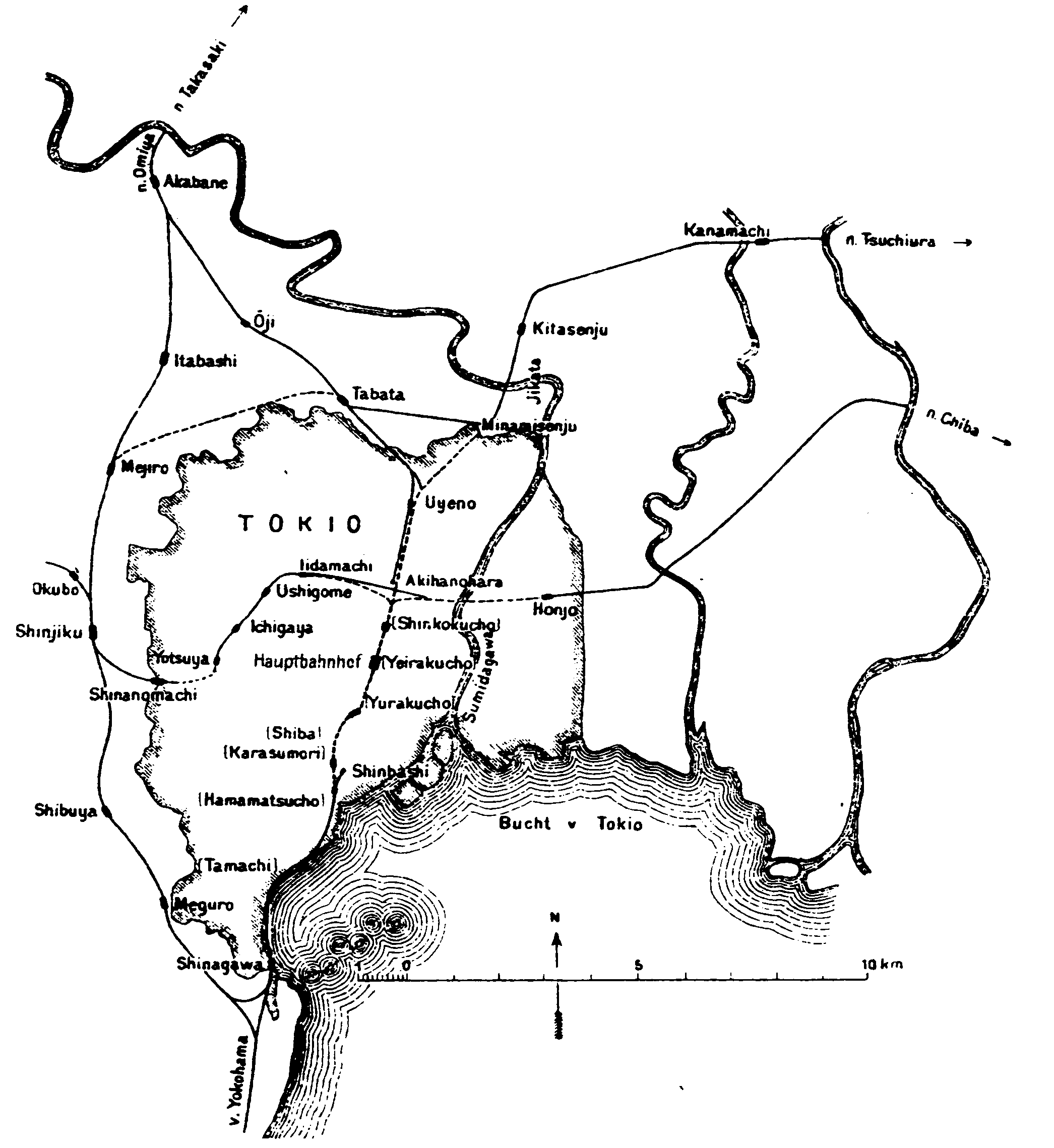 Grand design of railway network in Tokyo, designed by Franz Baltzer